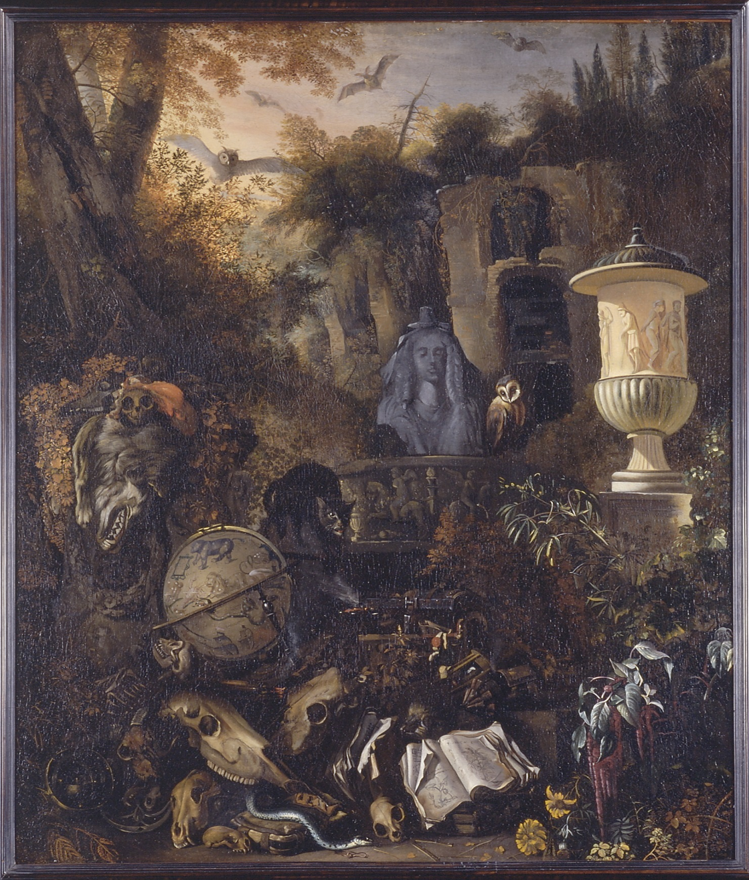 Vanitas symbols in a landscape, by Matthias Withoos, 1658, oil on canvas, 100 x 84 cm